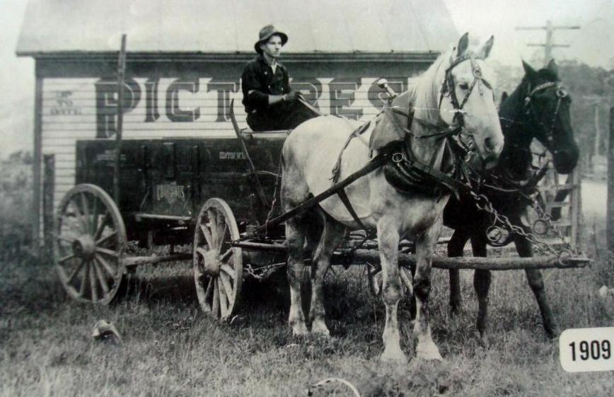 Clive Alderman with wagon and horses. Photo taken at Hillsboro by Howard Clark at his studio. Mr. Alderman was hauling from Seebert to Lobelia for G. H. Dean.